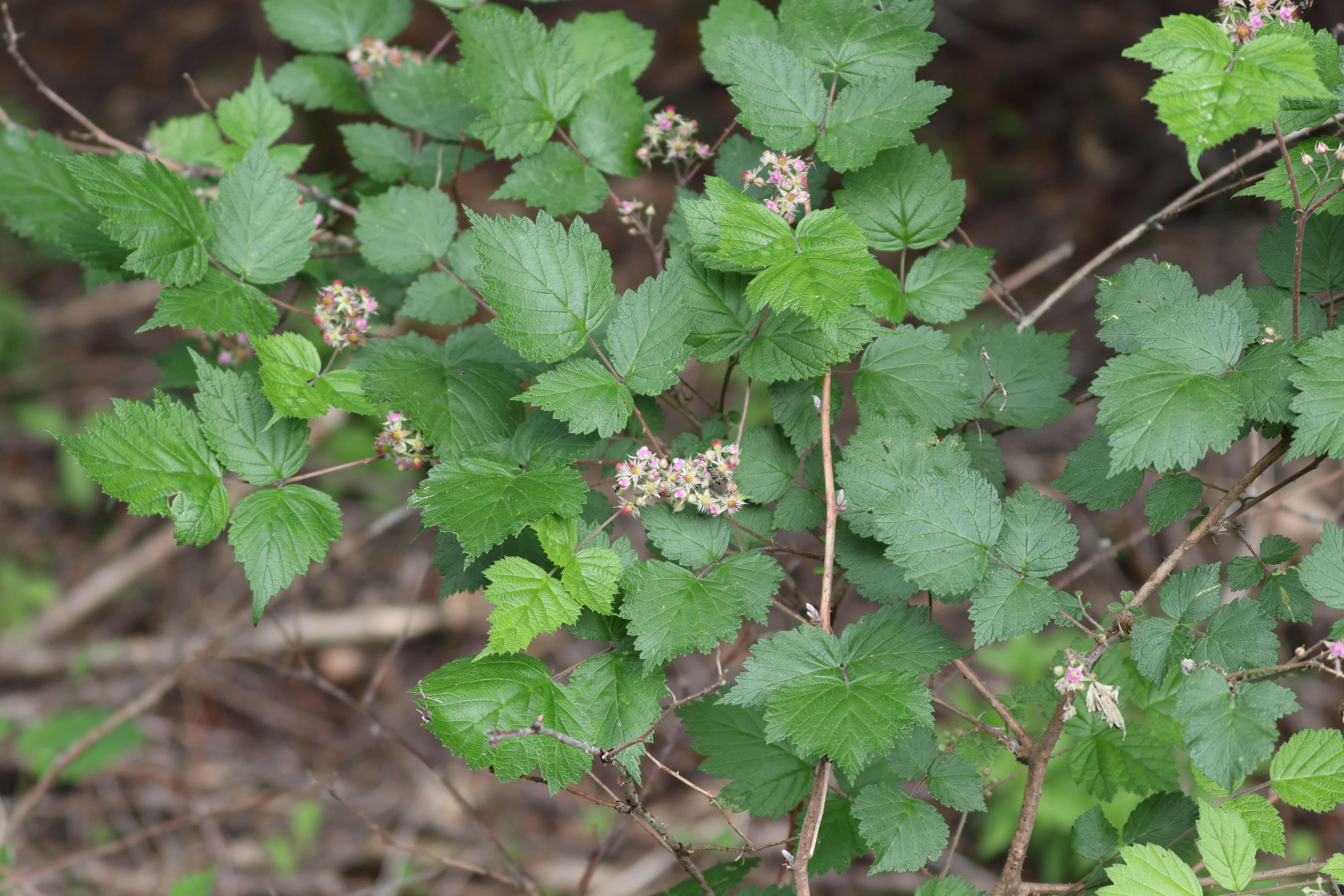 Rubus mesogaeus in Oshika, Nagano Prefecture, Japan. Canon EOS Kiss X10